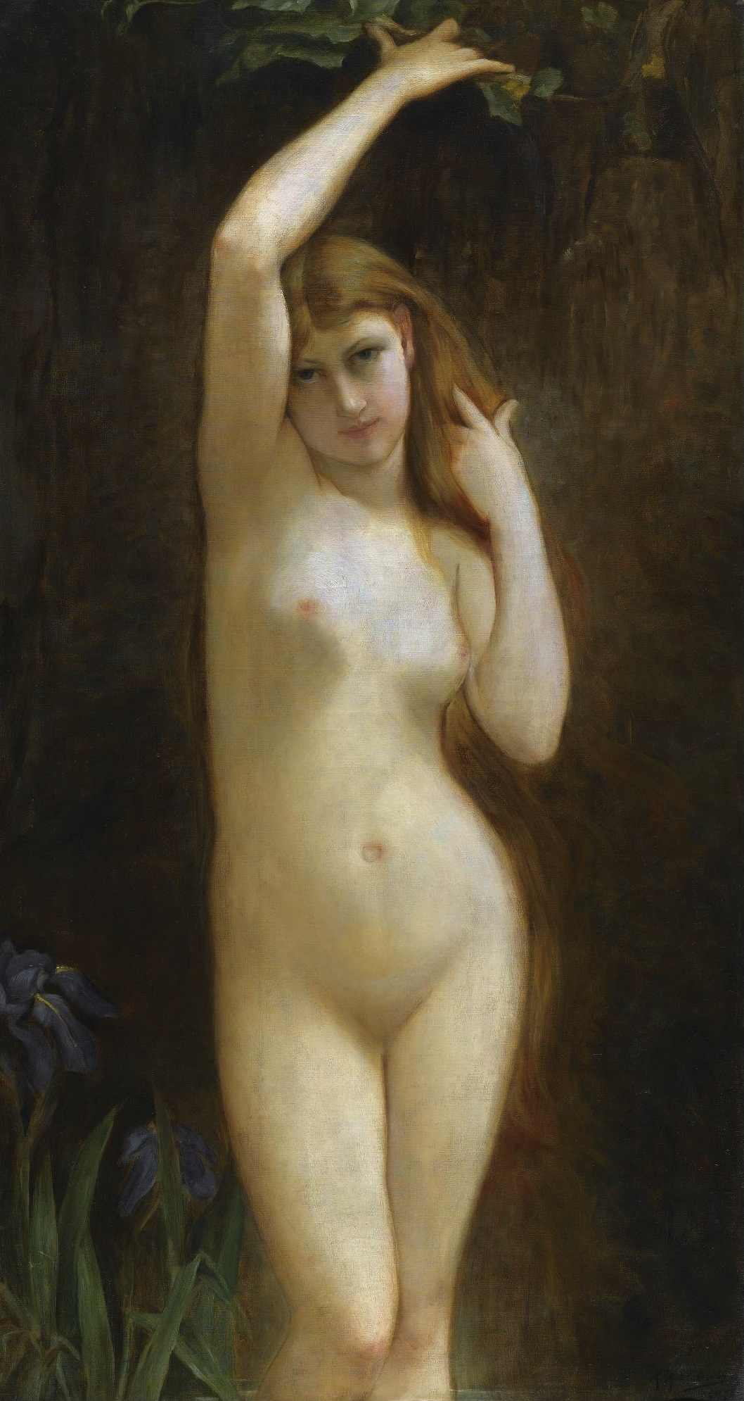 Kleoniki Asprioti, Standing nude, 1897, copy from Jules-Joseph Lefebvre.